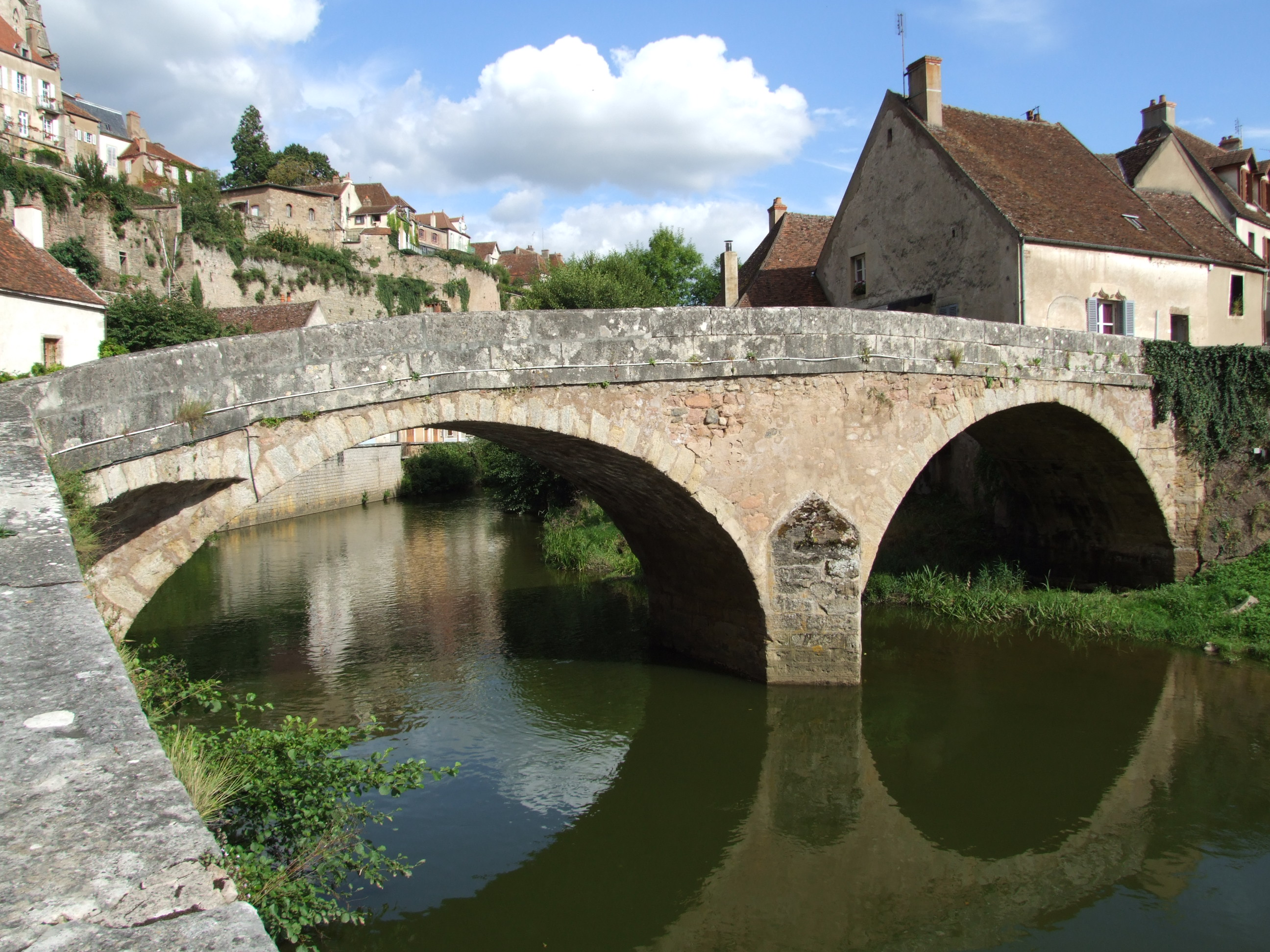 Pinard Bridge, Semur-en-Auxois, Burgundy, FRANCE